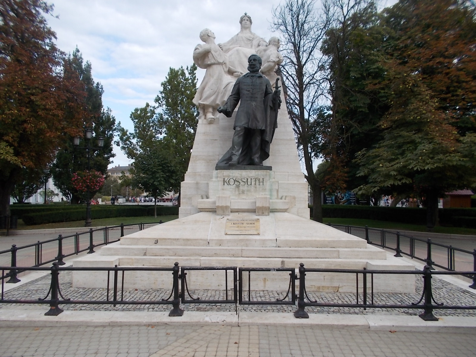 Kossuth Monument by Gyula Betlen (1912 works, On the back of the statue is a bird on a broken cannon, and under it is the date: 1848). Its shows genius and two fighting people, fronzt of those stand Lajos Kossuth - Kossuth Square, Nyíregyháza, Szabolcs-Szatmár-Bereg County, Hungary.